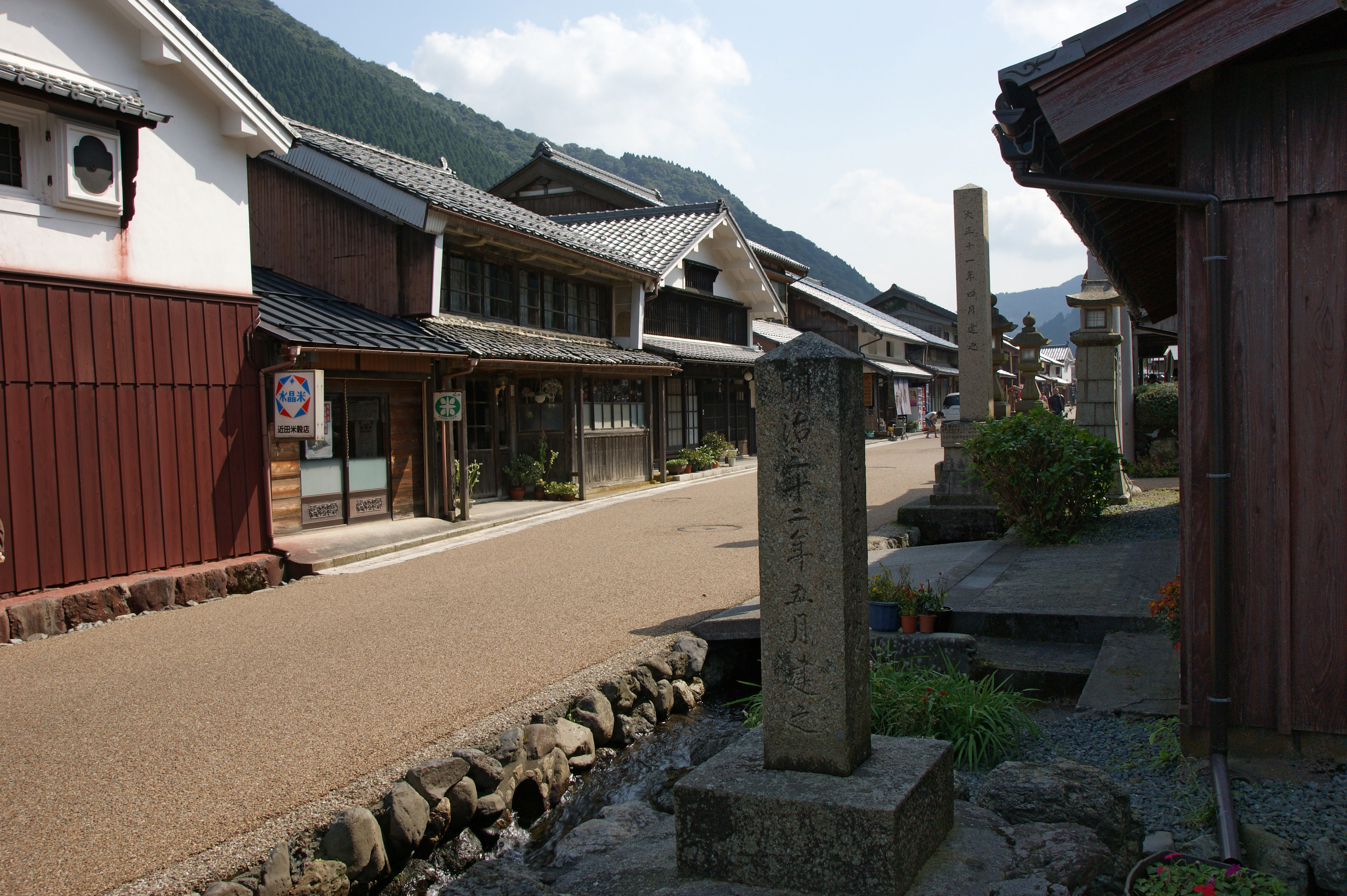 Kumagawa-juku, Wakasa, Fukui prefecture, Japan